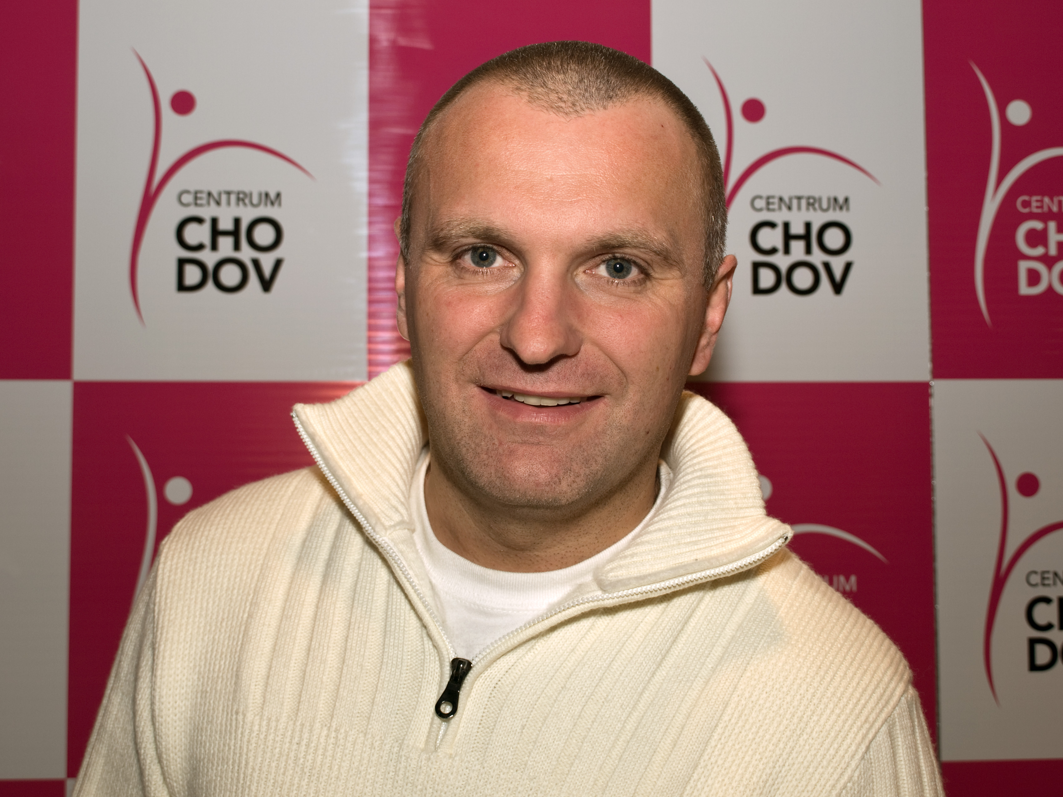 Czech ice hockey player and coach Robert Reichel in Prague during presentation a book about him